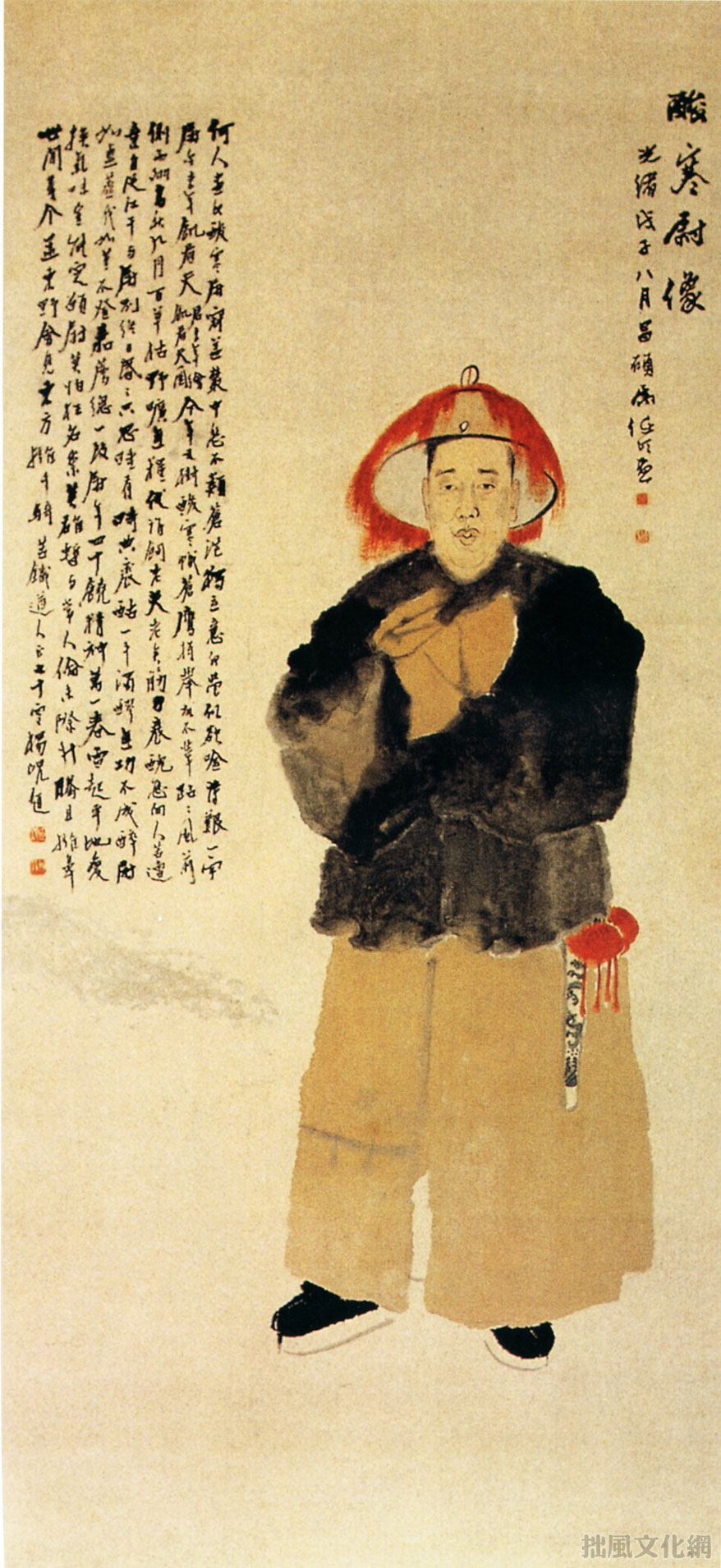 Portrait of the official Han Wei (Portrait d'un crève-la-faim.)